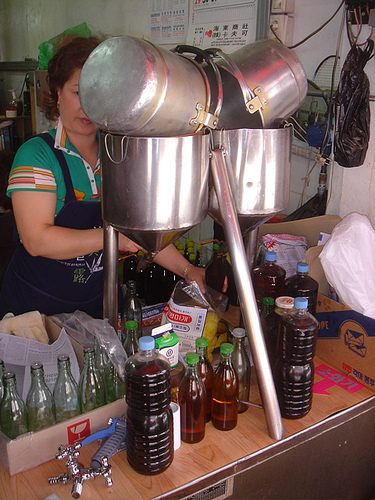 Making chamgireum (sesame oil) at Moran Market, Seongnam, Gyeonggi Province, South Korea. NOTE: This does not appear to be "making", but rather "dispensing" oil.